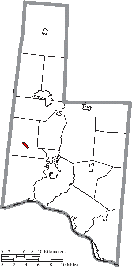 Map of the municipal and township boundaries of Brown County, Ohio, United States, as of the 2000 census, with the location of the village of Hamersville highlighted. Township borders are shown only in unincorporated areas in order to differentiate incorporated and unincorporated areas more clearly.